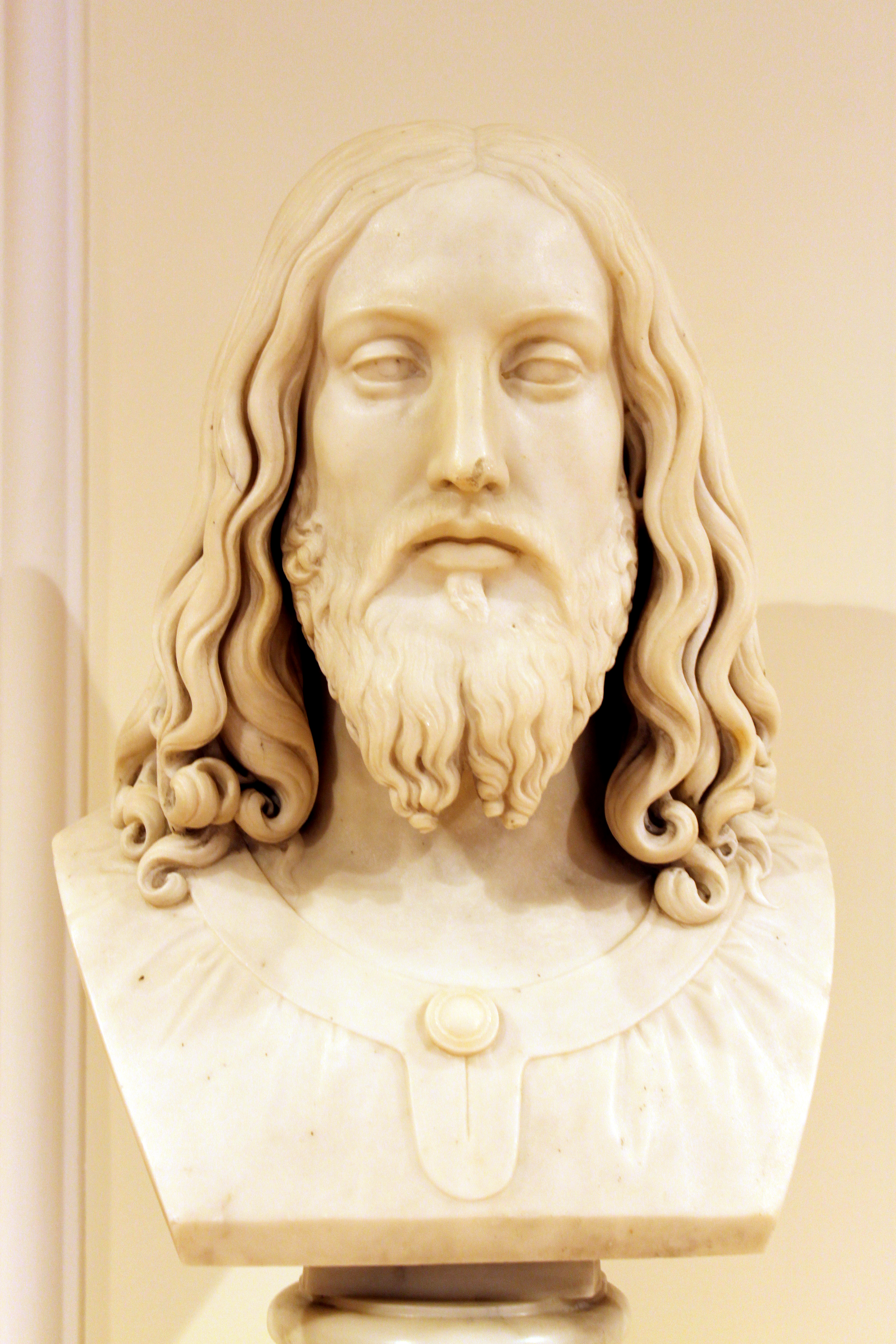 Pietro Tenerani - Bust of Jesus Christ